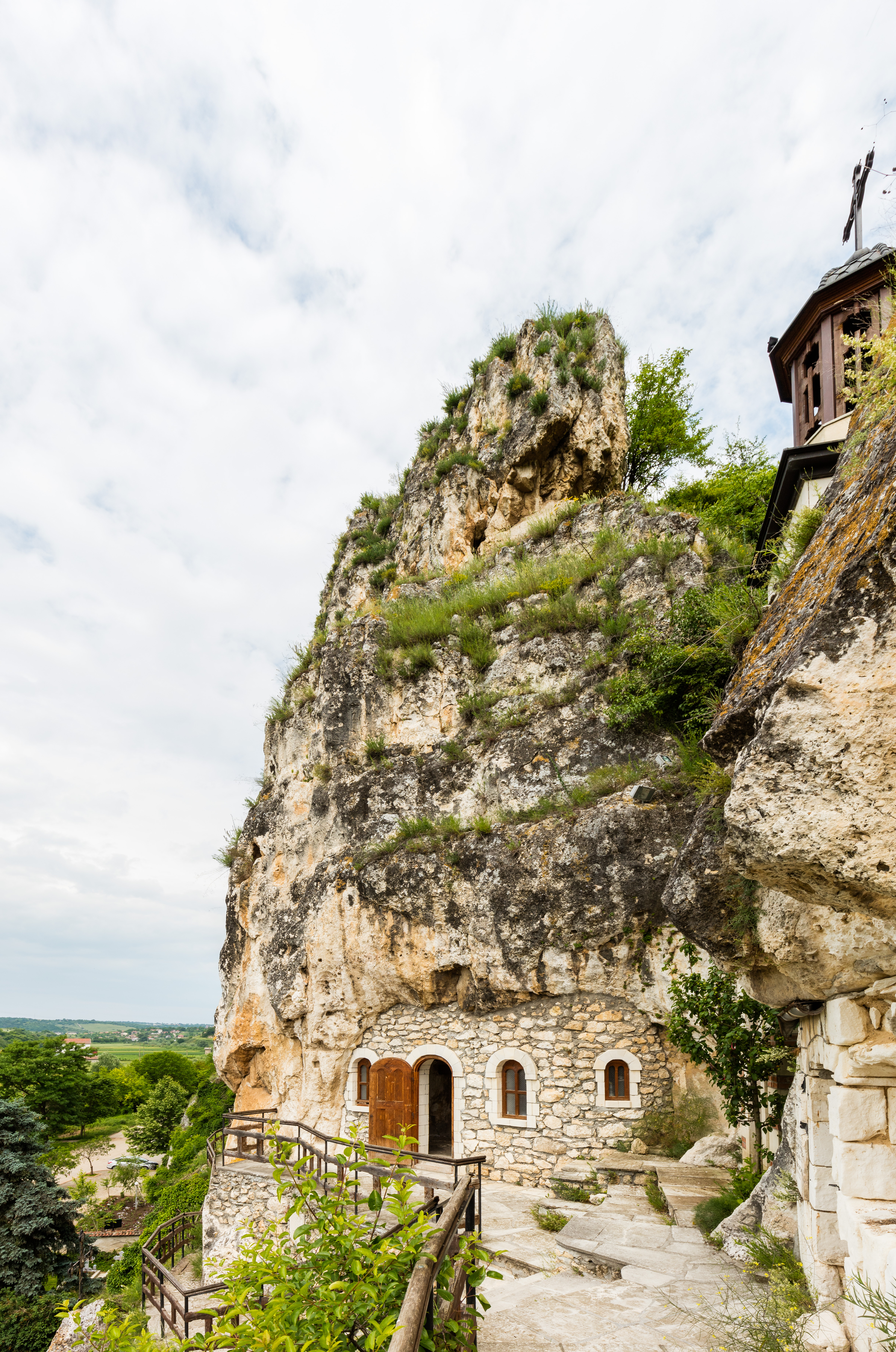 Rock-hewn Churches of Basarbovo, Bulgaria